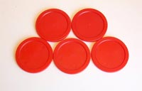 Photo taken and edited by Craig M. Groshek, all rights released